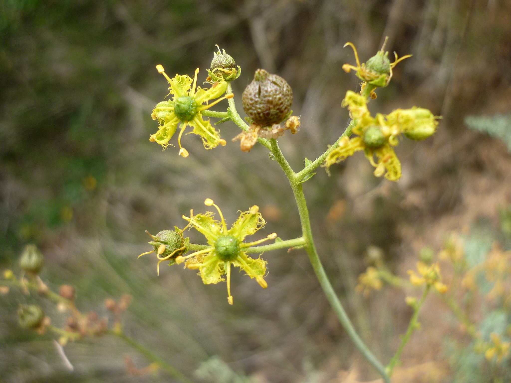 Ruta angustifolia. In Torà (Segarra-Catalunya). To 575 m. altitude